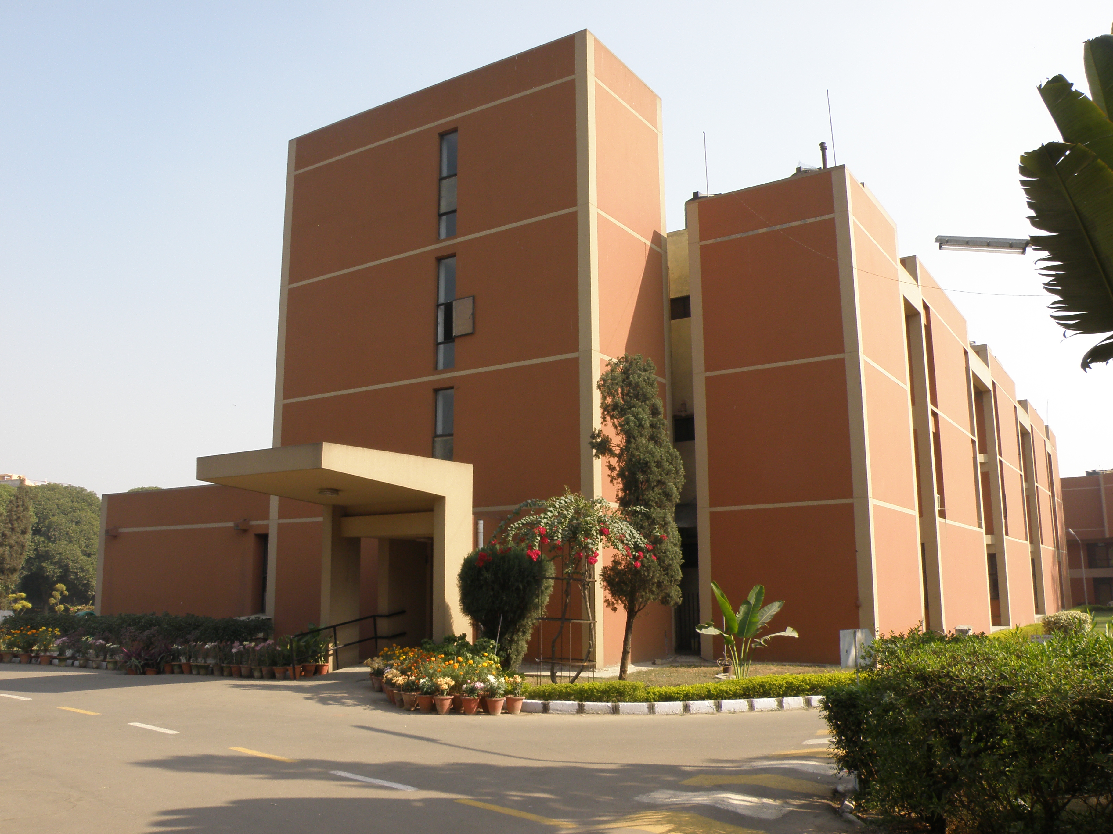 Main building, Indian Statistical Institute, Delhi Centre.